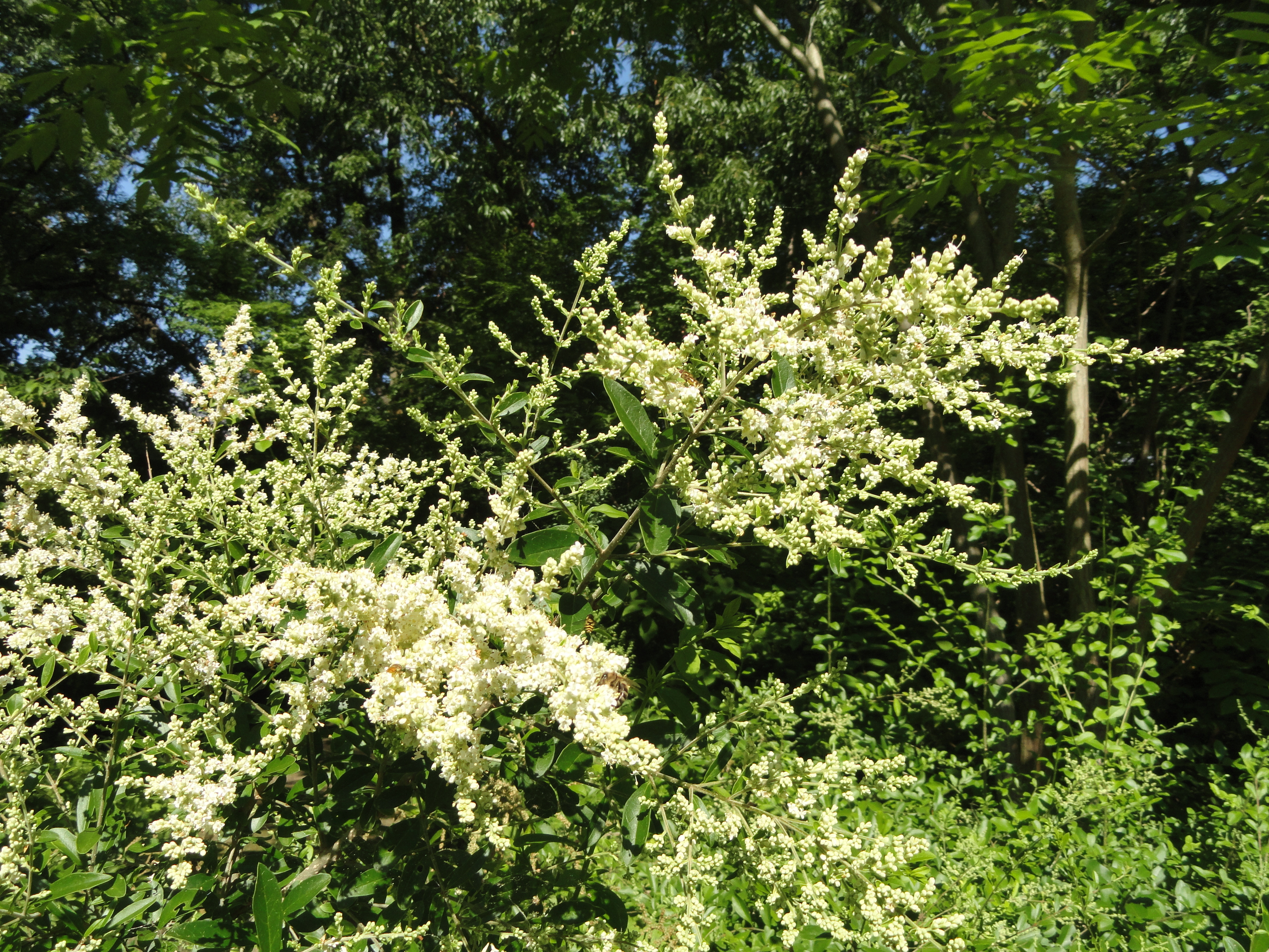 Botanical specimen in the Botanischer Garten, Frankfurt am Main, located at Siesmayerstraße 72, Frankfurt am Main, Germany.